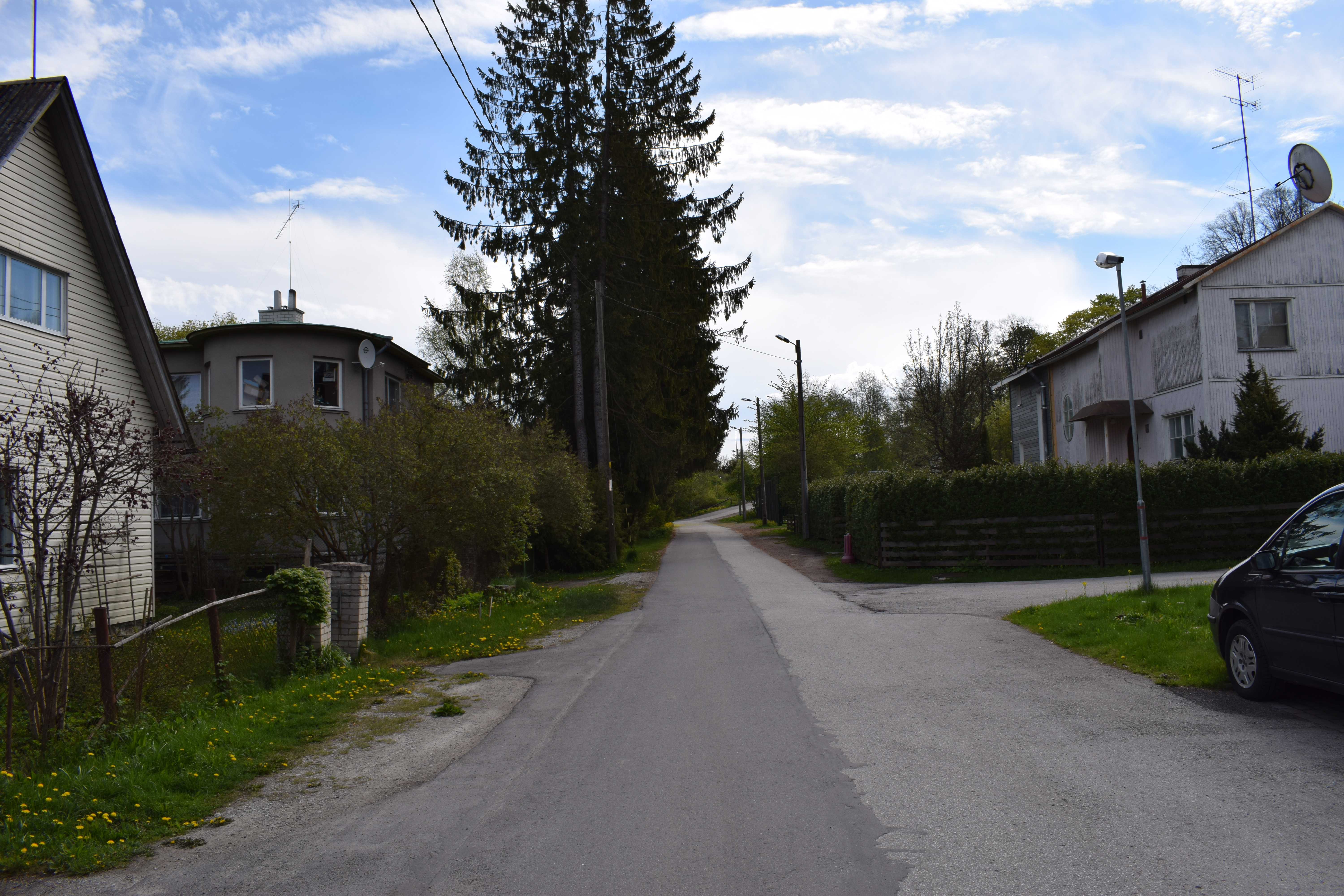 Jõekalda street